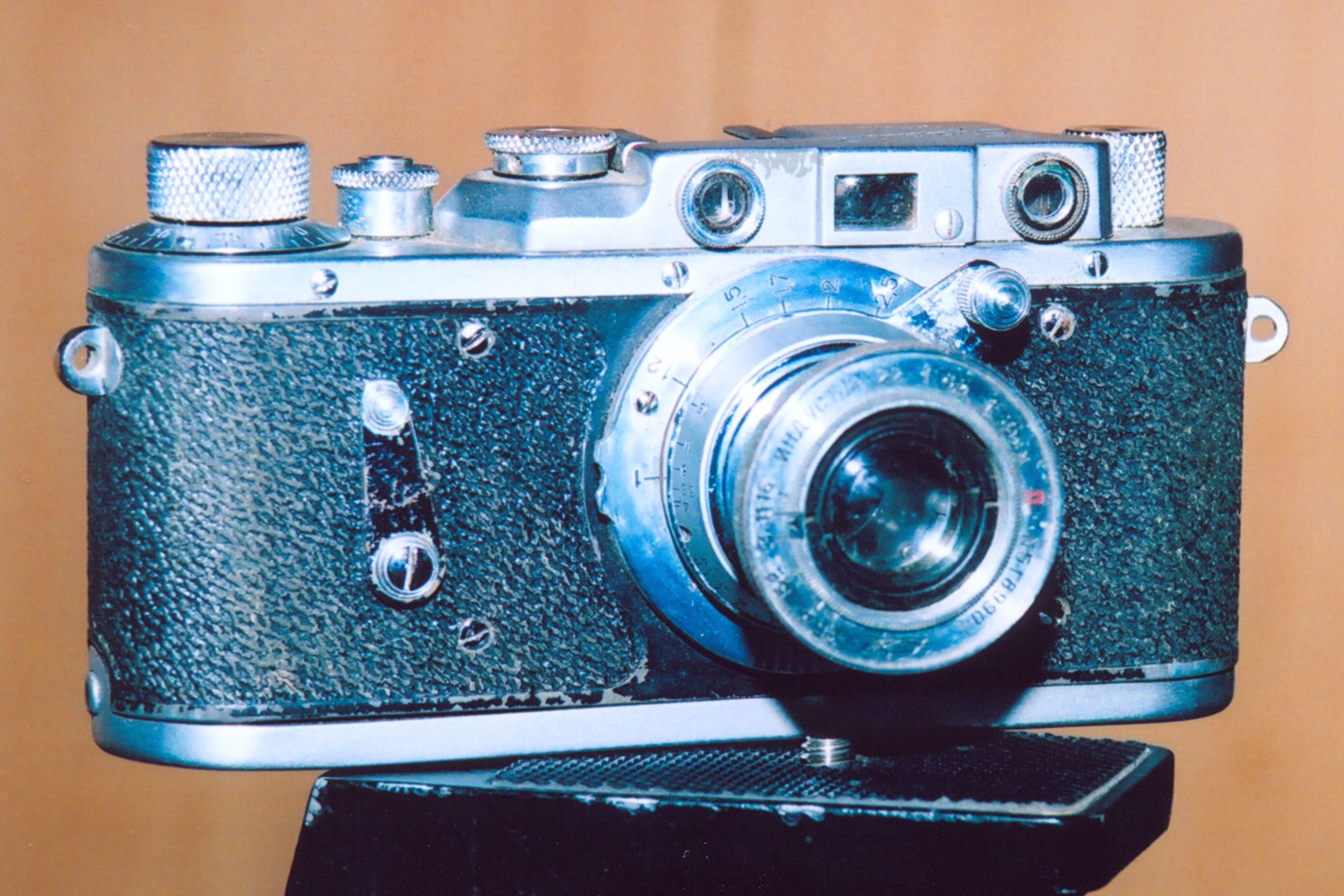 Фотоаппарат Зоркий-2 КМЗ